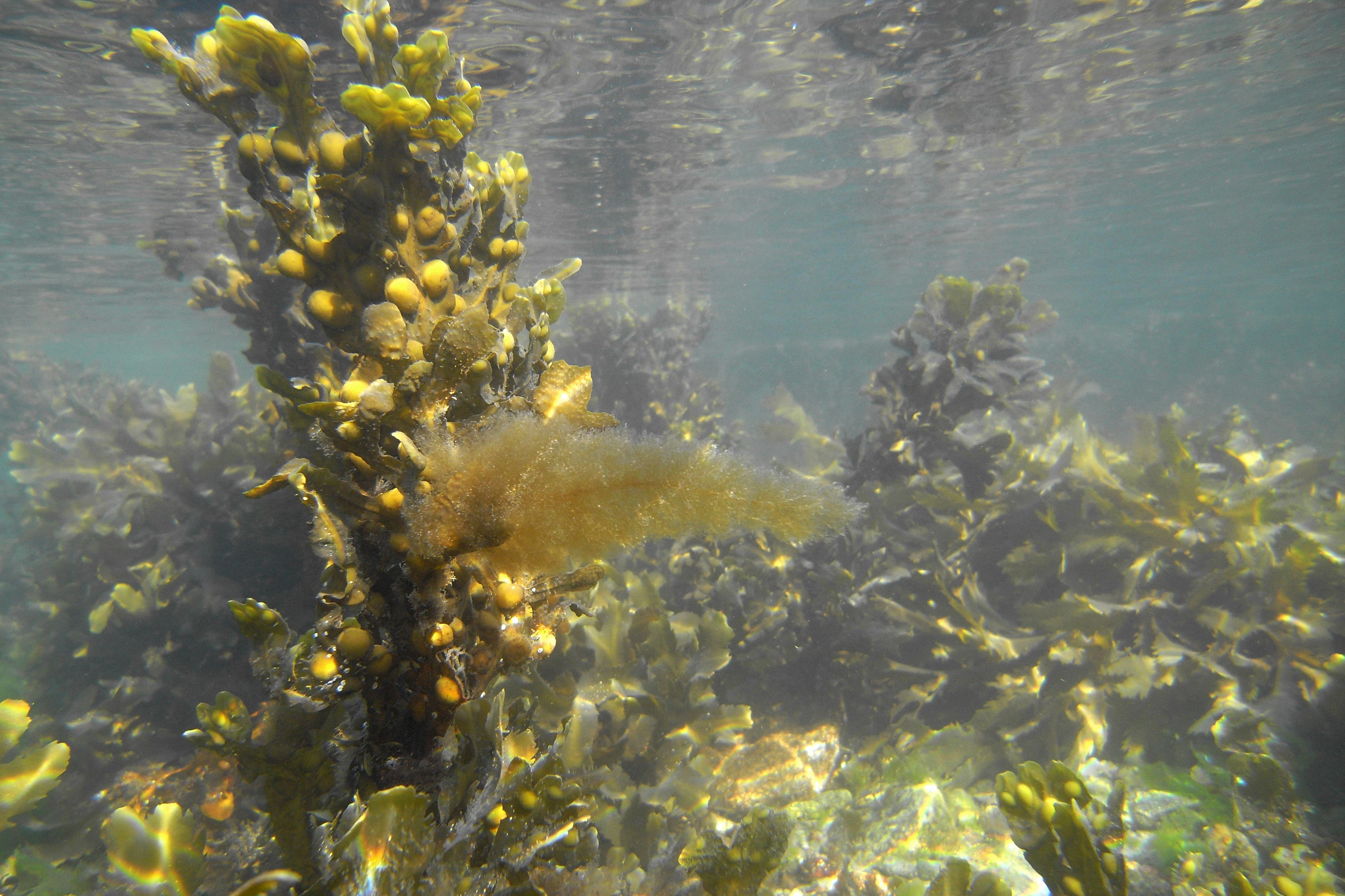 Filamentous brown alga growing on Fucus vesiculosus